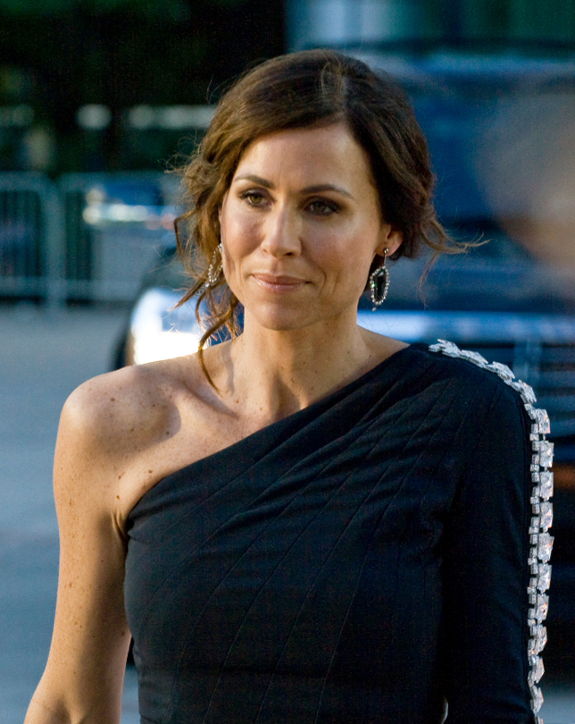 A British actress Minnie Driver, at the premiere of "Barney's Version" directed by Richard J. Lewis, during the Toronto International Film Festival, 2010.